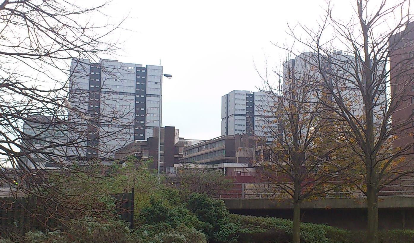 The Anderston Cross Commercial Centre, Anderston, Glasgow, Scotland. Designed by Richard Seifert (1967-73)